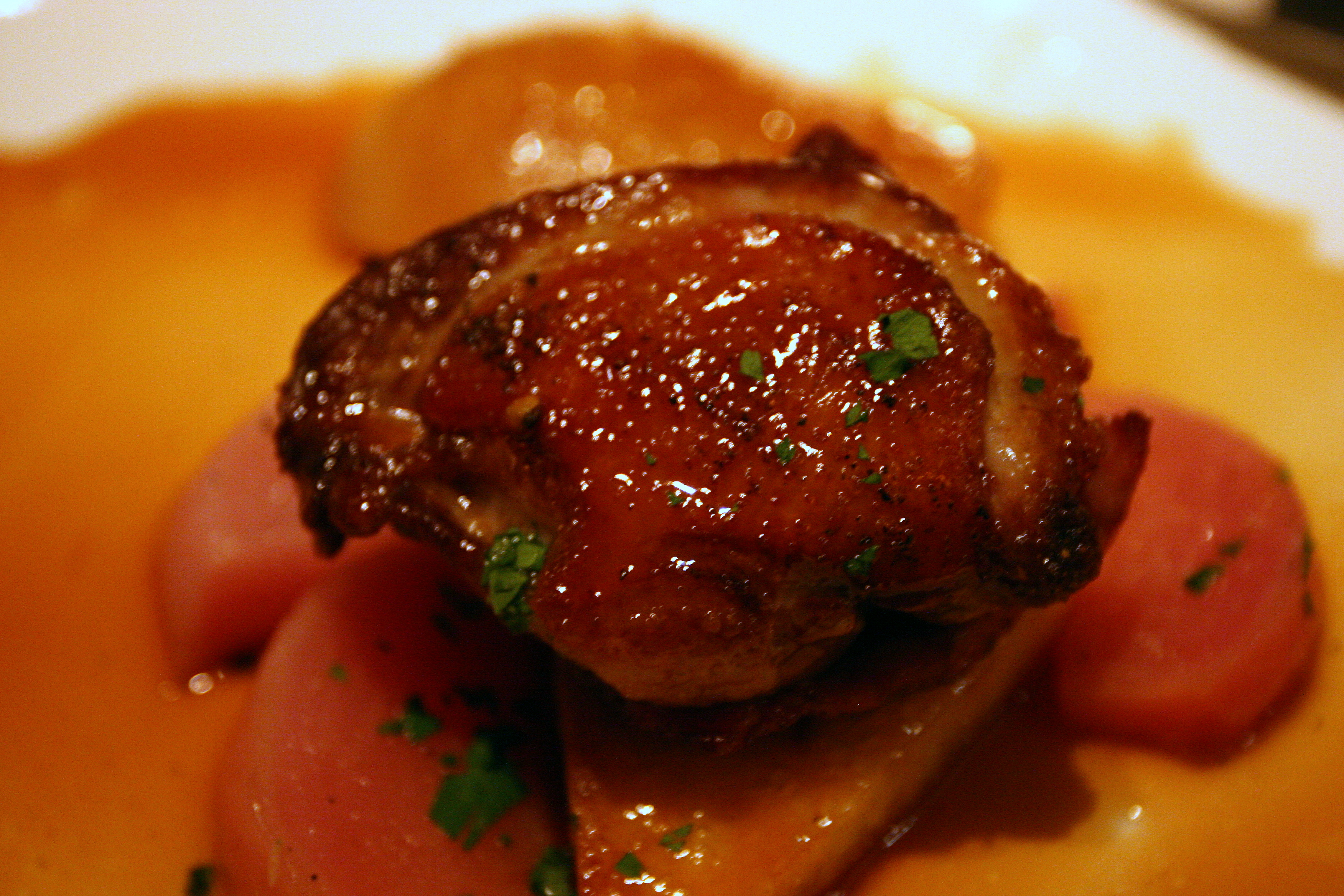 A breast of squab (young pigeon).